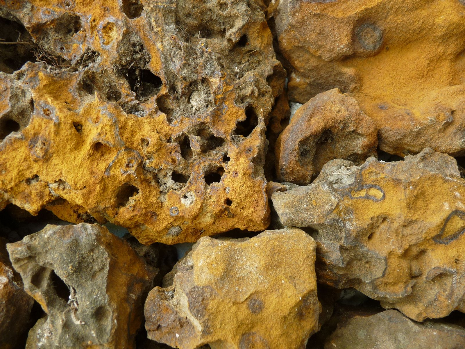 "Alios" stone, or "garluche". Sandstone made of sand and iron.